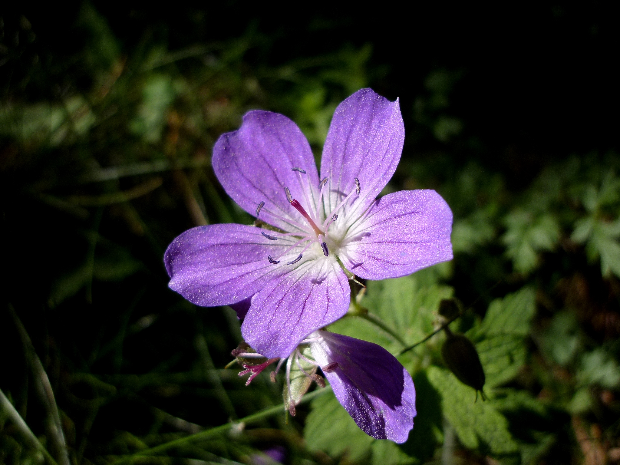 Geranium sylvaticum. In the Cadinell (Josa i Tuixèn-Alt Urgell-Catalunya). To 1.850 m. altitude.